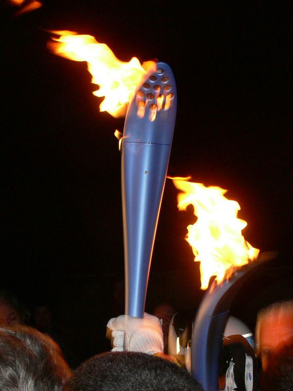 Olimpic flame, Varese, 30-01-2006 by Michele Petino